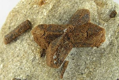 Staurolite Locality: Pestsovye Keivy, Keivy Mountains, Kola Peninsula, Murmanskaja Oblast', Northern Region, Russia (Locality at ) Size: 8.2 x 7.4 x 2.5 cm. Embedded in starkly contrasting mica schist are about a dozen crystals of the nesosilicate staurolite. This is the same mineral that forms the well-known "fairy crosses" from Georgia in the U.S. Here, most of the crystals are elongated prisms, but in a couple of examples they have formed crosses. They stand out beautifully from the matrix!